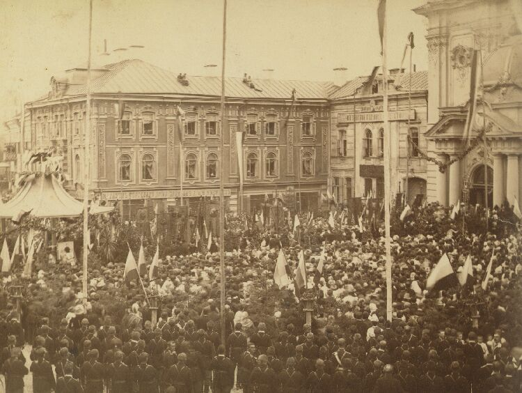 Vilnius in 1888